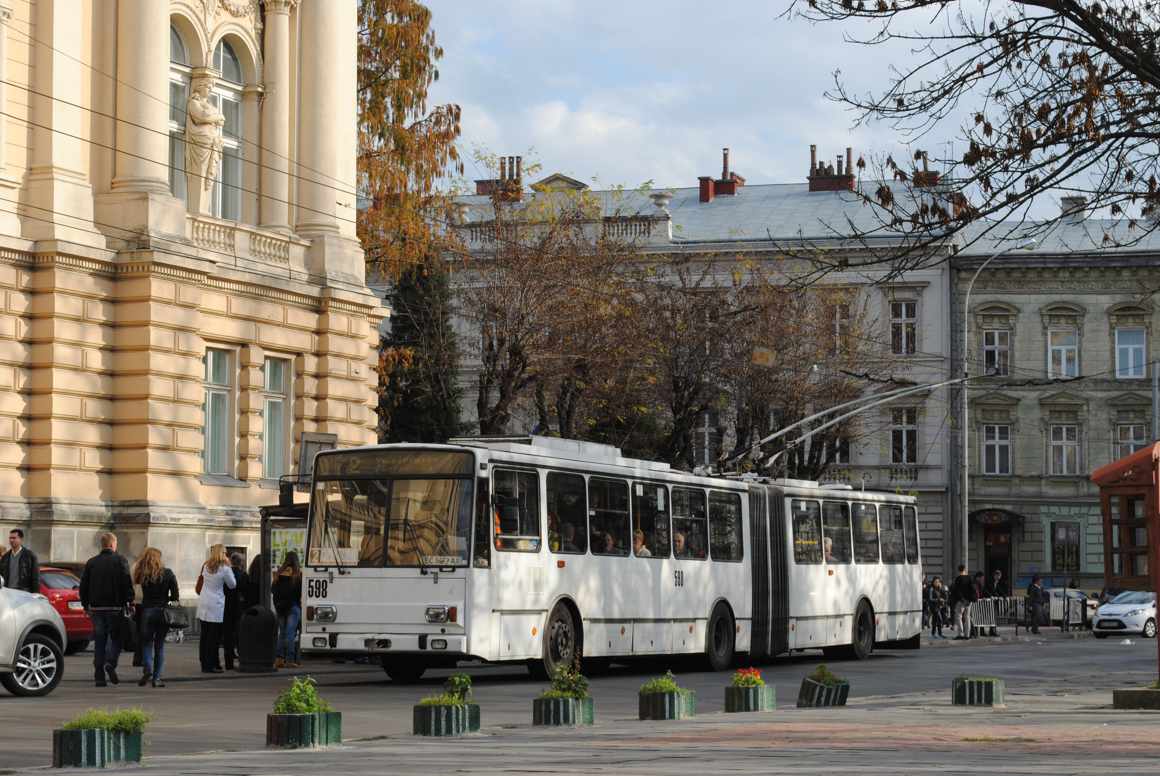 A Skoda 15Tr trolleybus Nr. 598 in Lviv on Universitetska st.